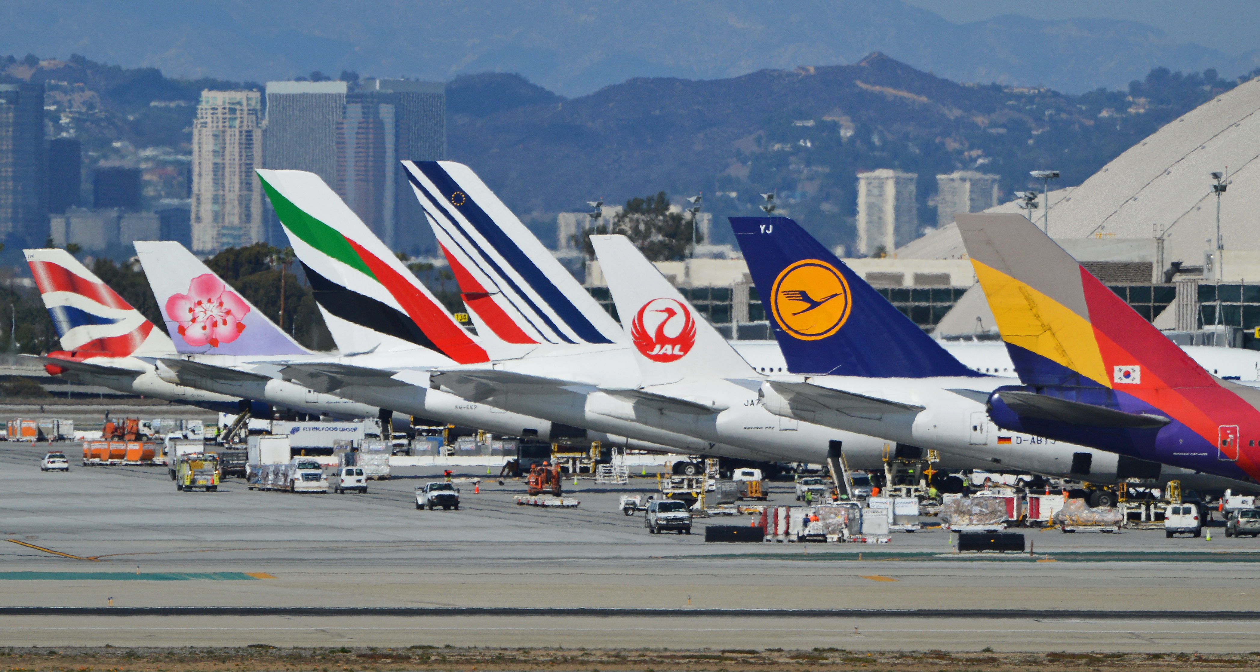 A fascinating line-up of airliner seen at LAX. From left to right:- British Airways Boeing 747 'G-CIVE', China Airlines Boeing 747 'B-18210', Emirates A380 'A6-EEP', Air France A380 'F-HPJF', Japan Airlines Boeing 777 'JA731J', Lufthansa Boeing 747-830 'D-ABYJ' and Asiana Boeing 747 'HL7428'.